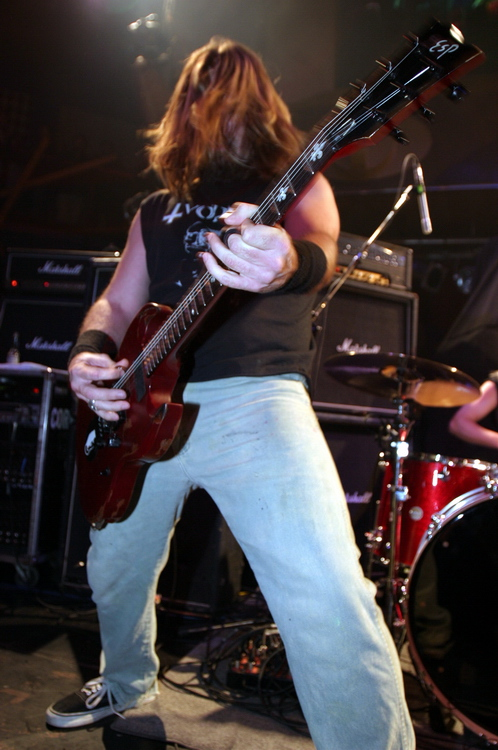 Pepper of Corrosion of Conformity Live at Reds, Edmonton